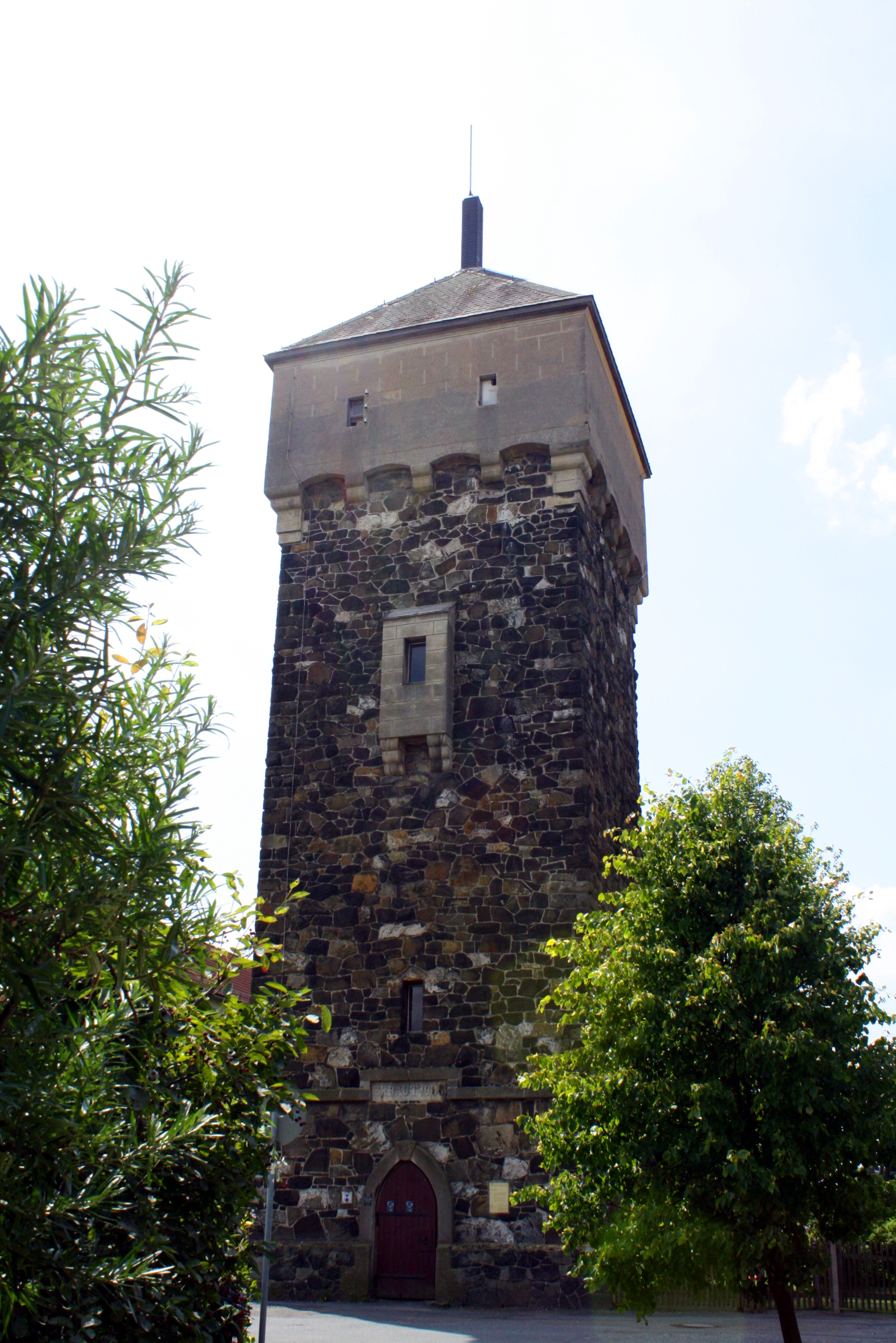 Water tower in Hohenleuben near Greiz/Thuringia